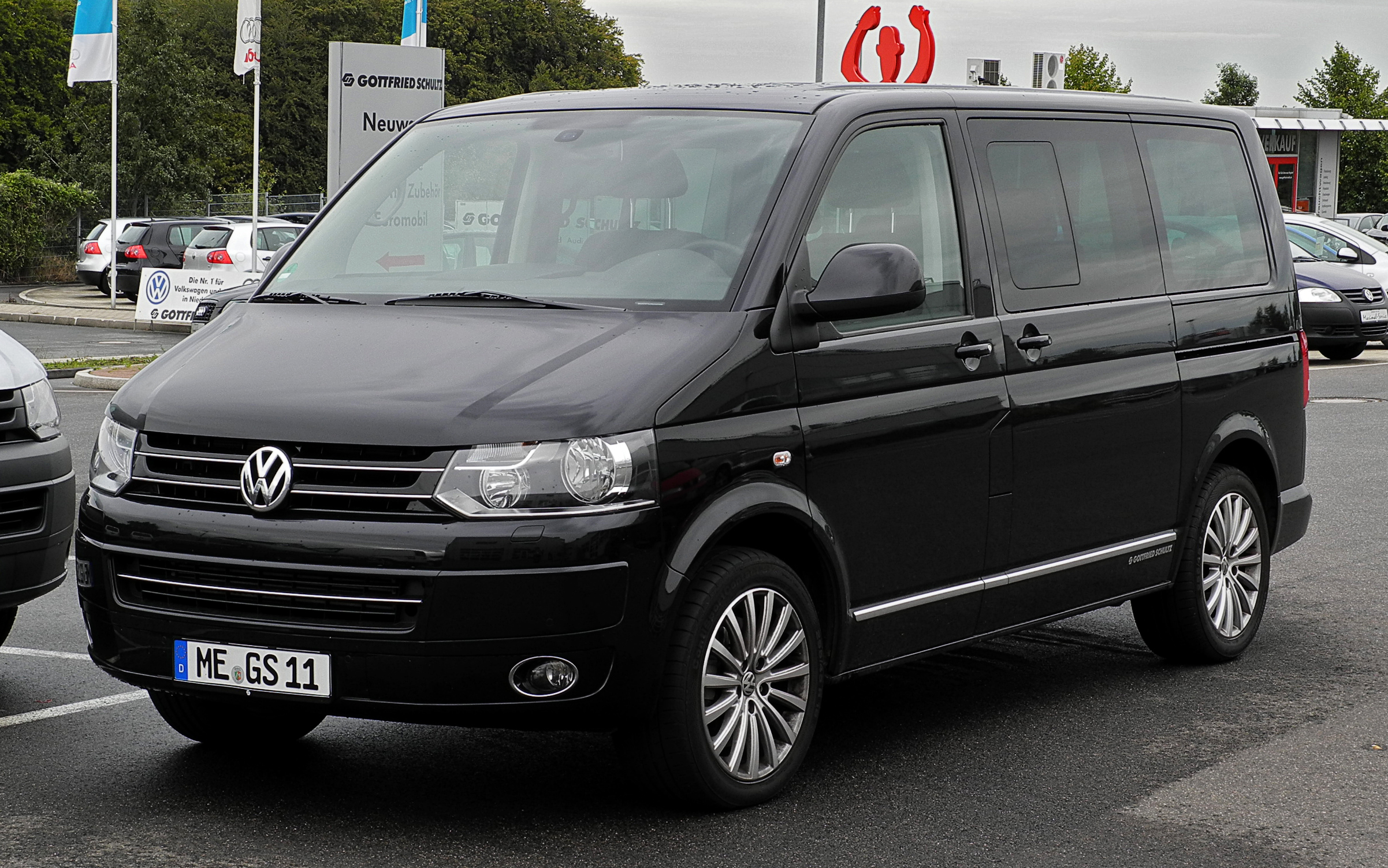 VW Multivan Highline (T5, Facelift)